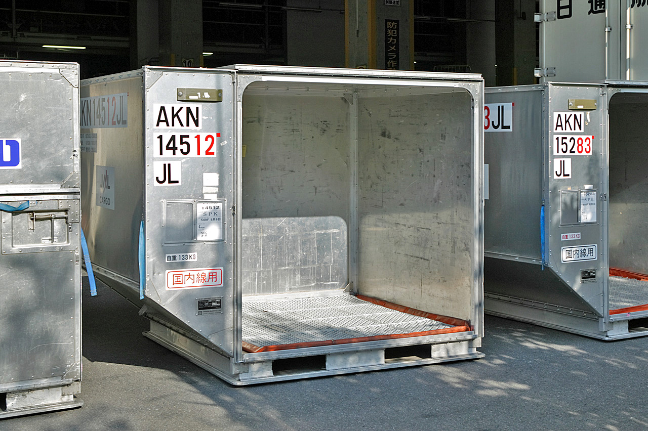 Nippon-Sharyo Type LD-3V ULD